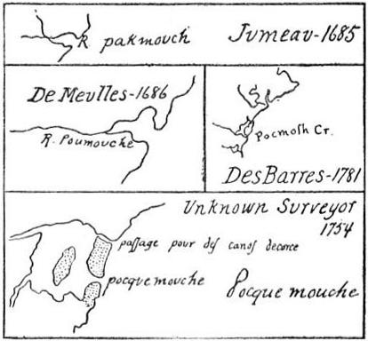 Various histroical maps of Pokemouche, New Brunswick, Canada.